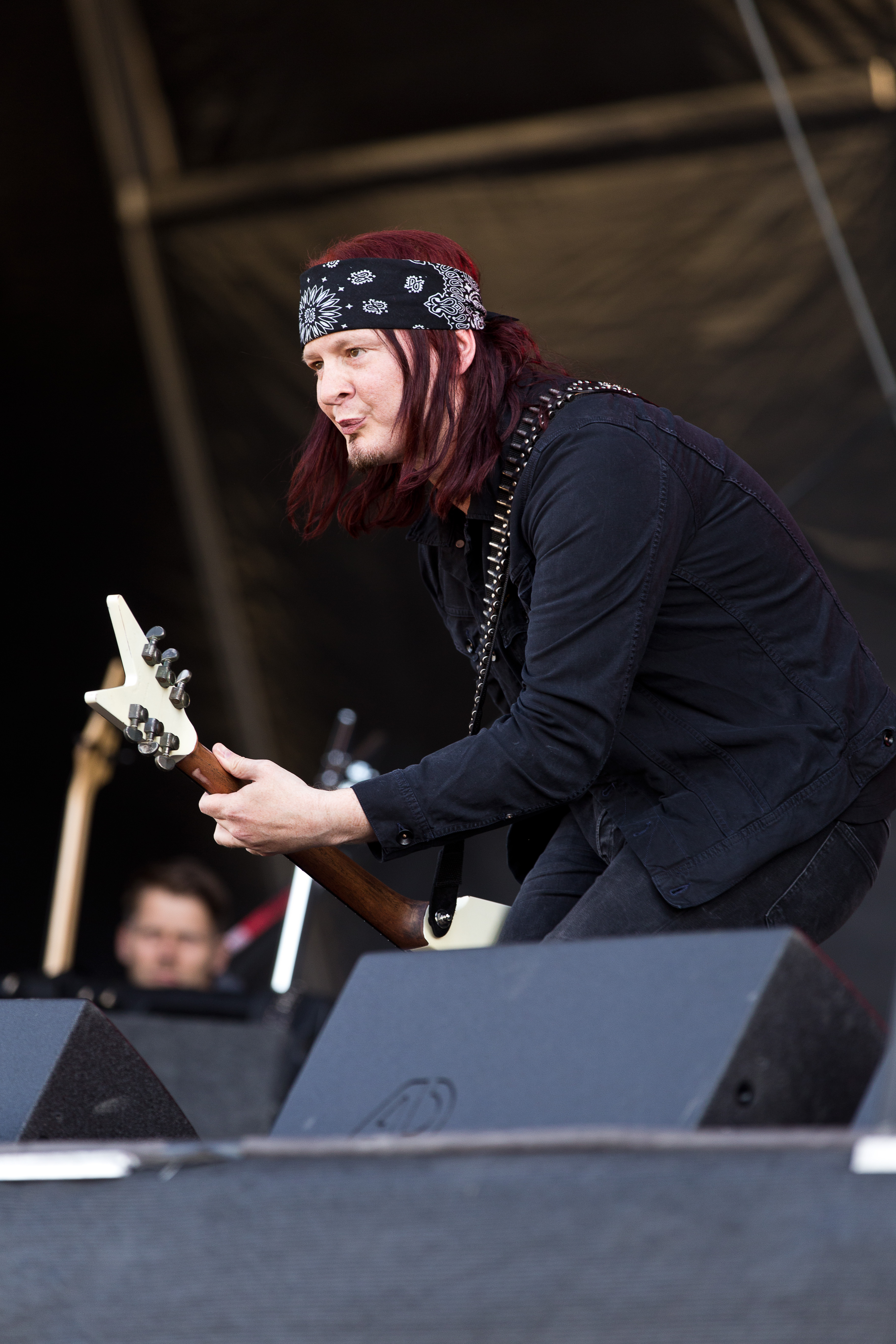 The Swedish stoner metal band Spiritual Beggars at the Rockharz Open Air 2016 in Ballenstedt/Germany.